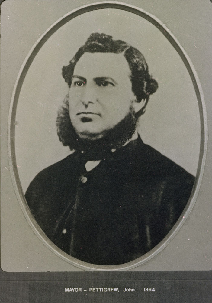 Portrait of John Pettigrew, Mayor, 1864, Ipswich, n d